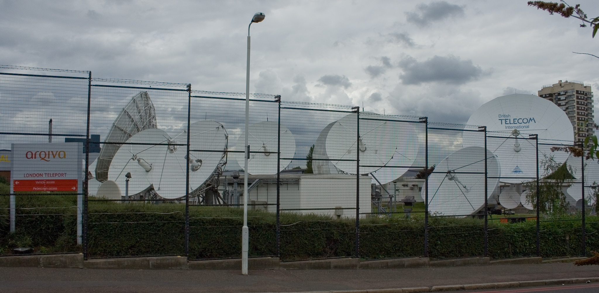 Satellite dishes at the "arqiva London Teleport", North Woolwich; showing old British Telecom International logo on large dish